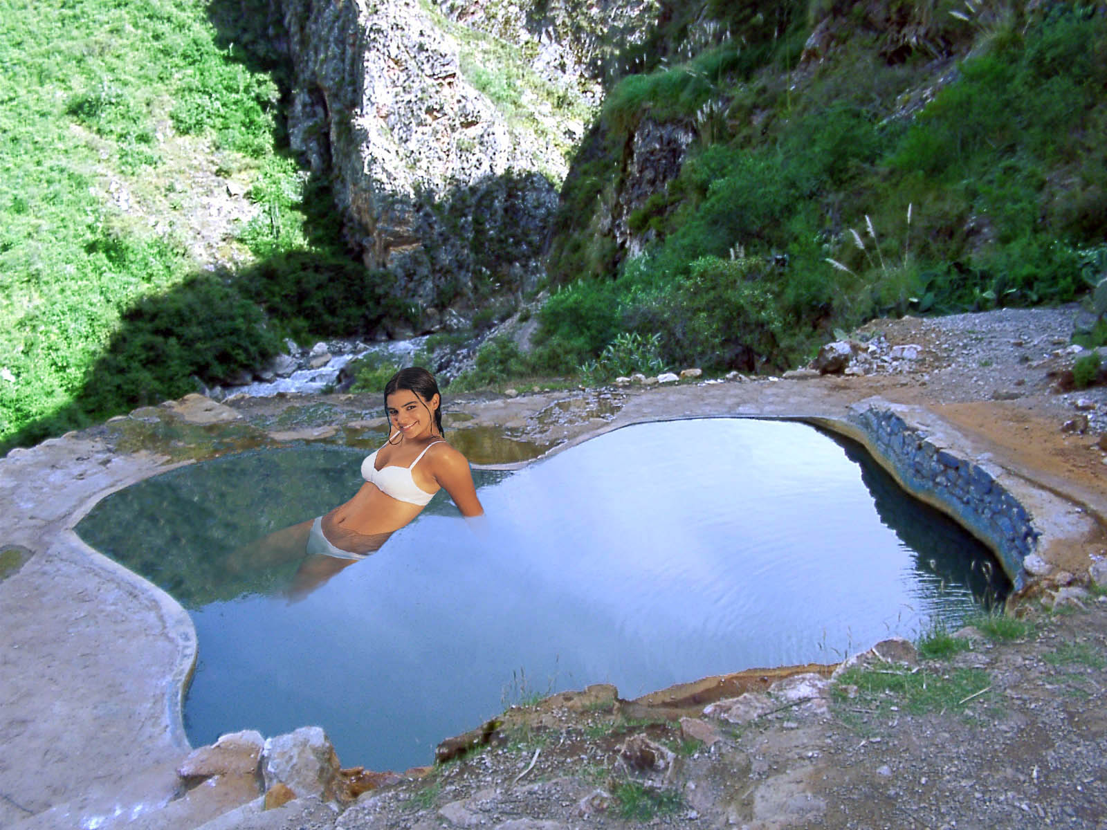 I, the author of this work, publish it under the following license (see below)